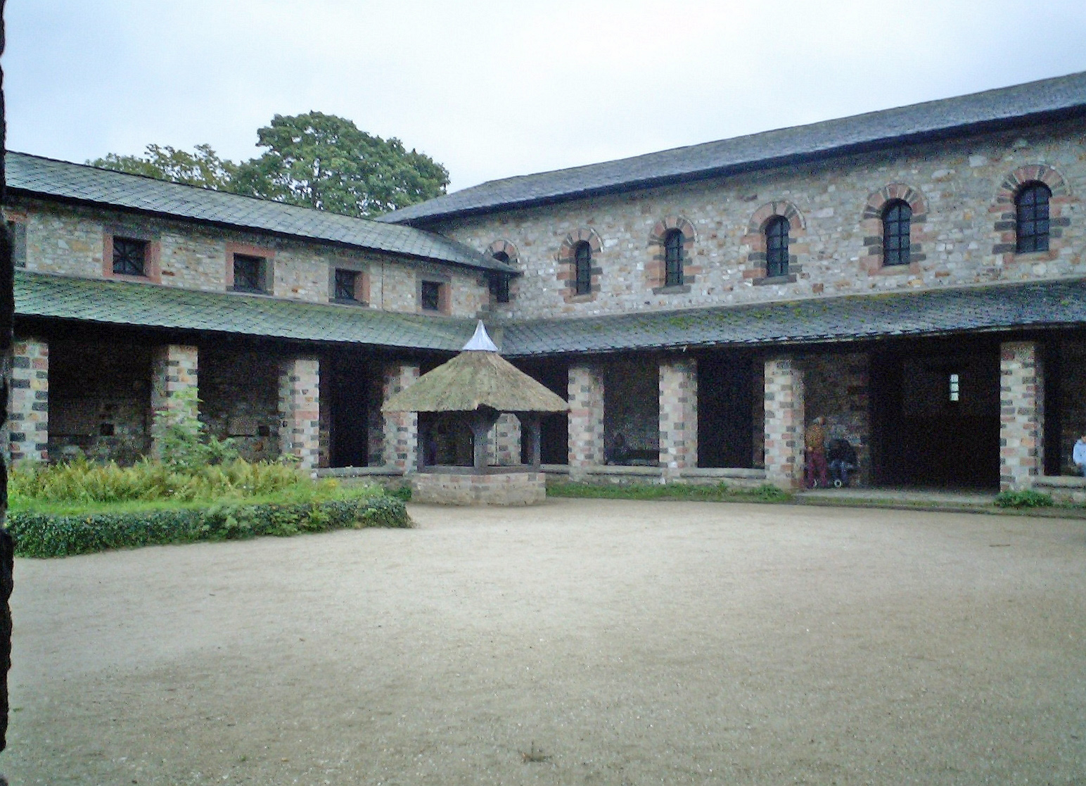 Internal courtyard of the Roman fort (castrum) of Saalburg, Germany (Hesse), looking back at the great hall